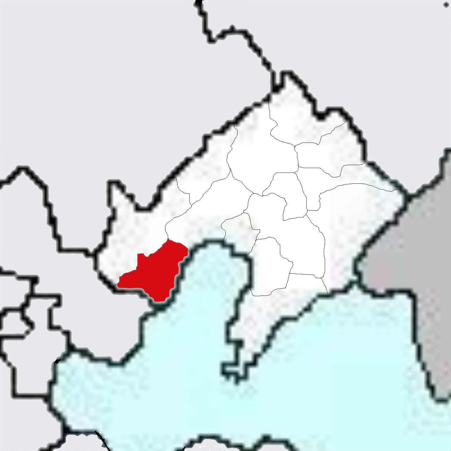 Map of Huludao Prefecture — Liaoning Province, northeastern China.